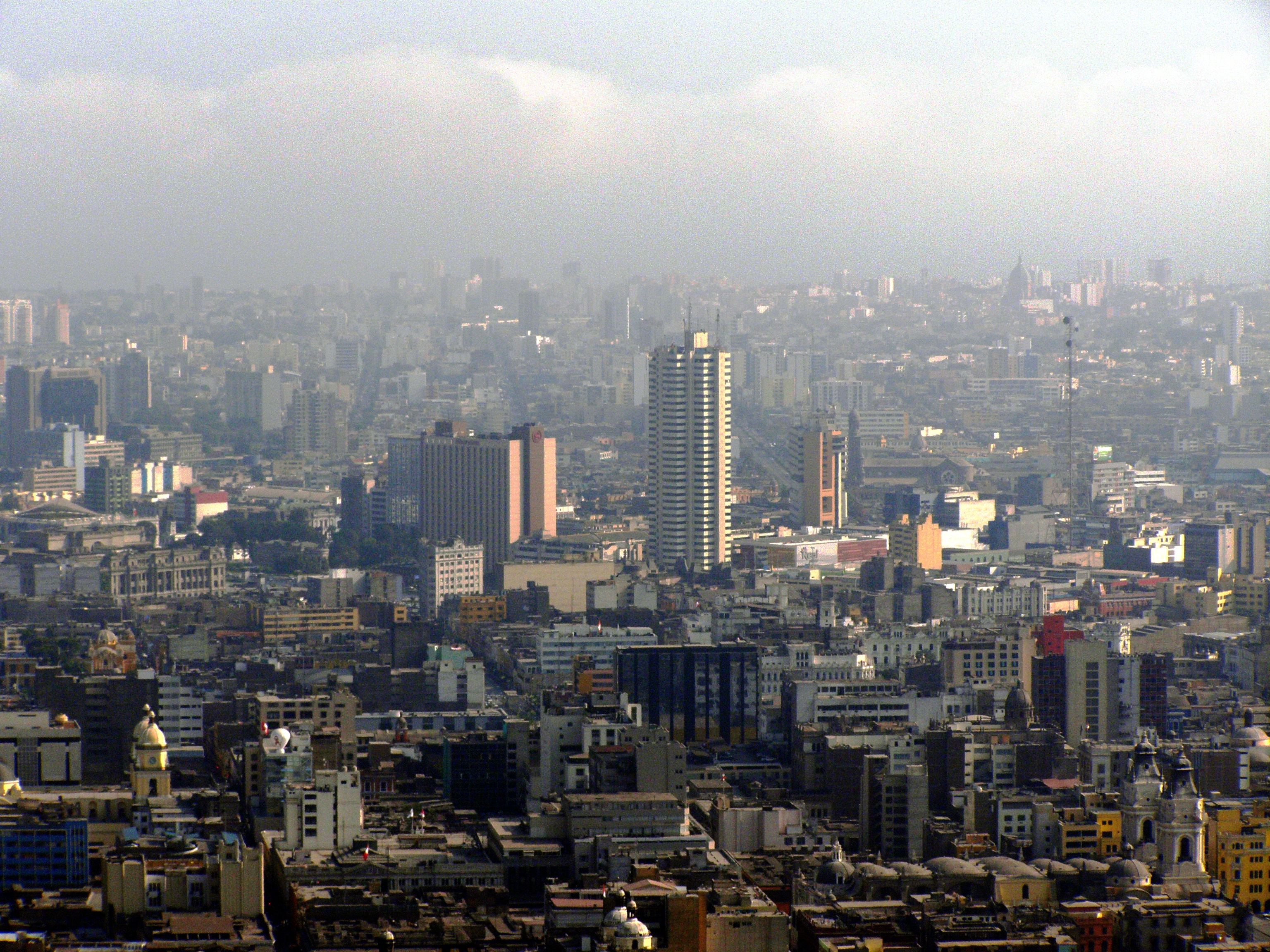 Lima, Peru panorama.